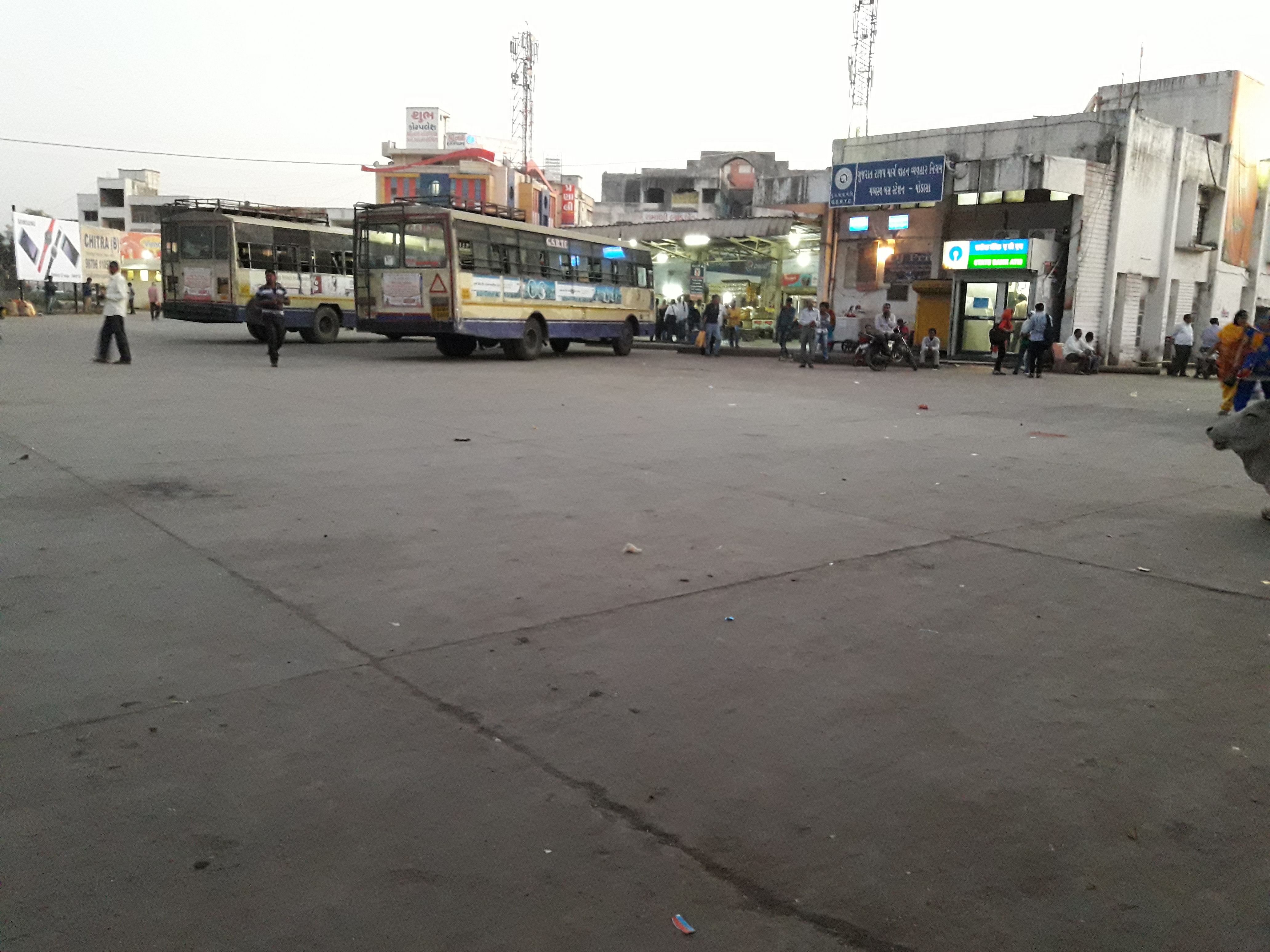 GSRTC Bus Station, Modasa, Gujarat, India.